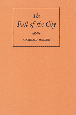 Front cover of the first edition of The Fall of the City (1937) by Archibald MacLeish